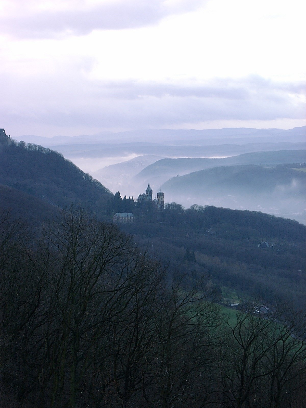 Drachenburg castle and Rhine valley near Königswinter at dawn